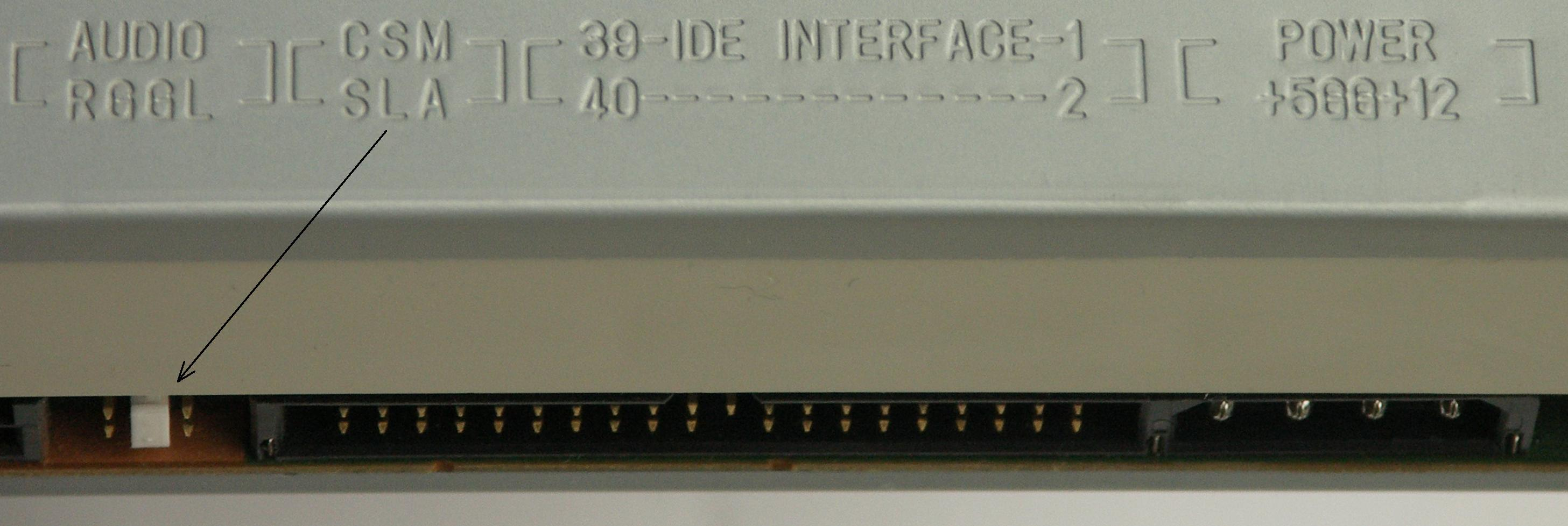 Back side of DVD with Jumper in slave position